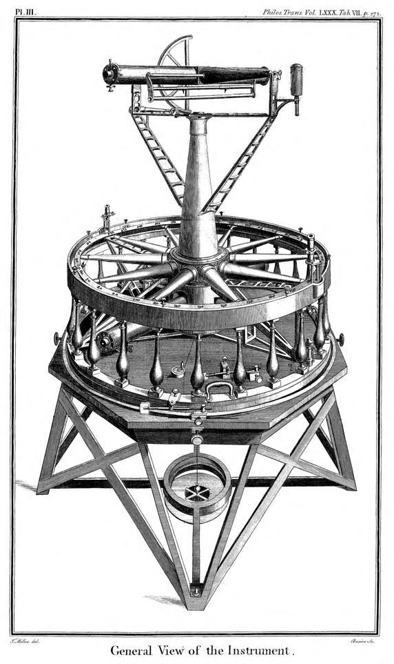 The first of the three foot theodelites manufactured by Jesse Ramsden. Image published in "An Account of the Trigonometrical Operation, Whereby the Distance between the Meridians of the Royal Observatories of Greenwich and Paris Has Been Determined. By Major-General William Roy" (January 1, 1790). Now available at . The illustration is from Plate III. (The plates are at the end of the bound volume but Plate III is at page 202 of the PDF file.) The full text description is on true pages 135-160 corresponding to pages 28-53 of the PDF file